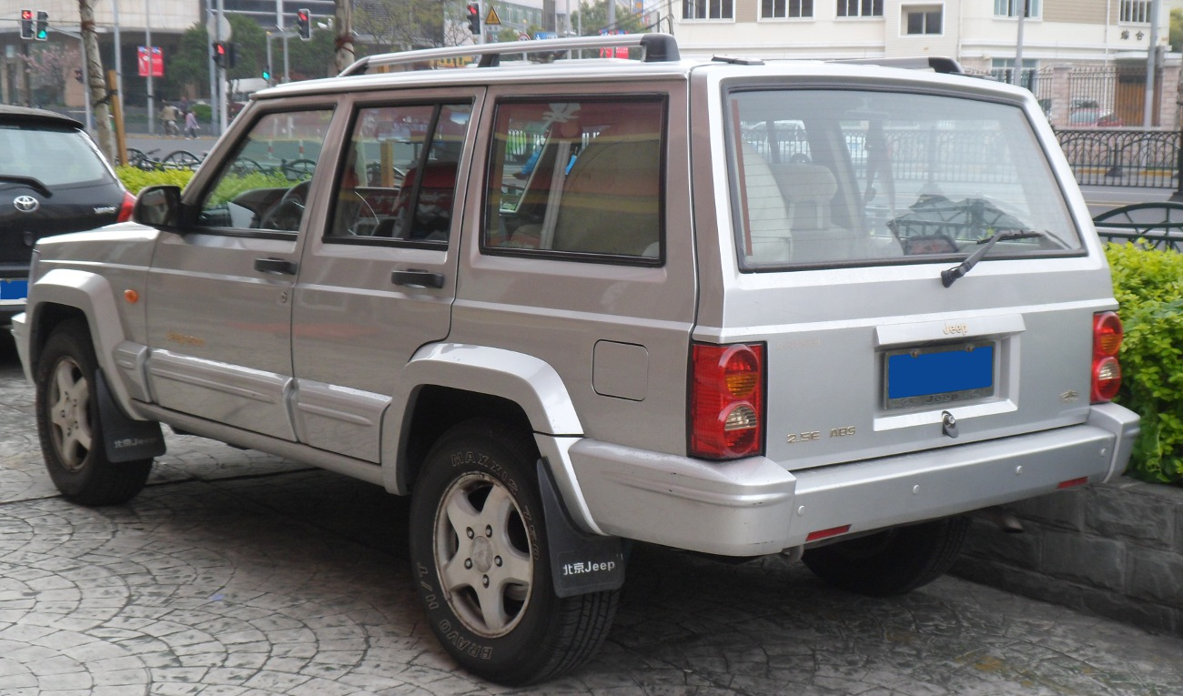 Beijing Jeep 2500 Cherokee photographed in Shanghai, China.